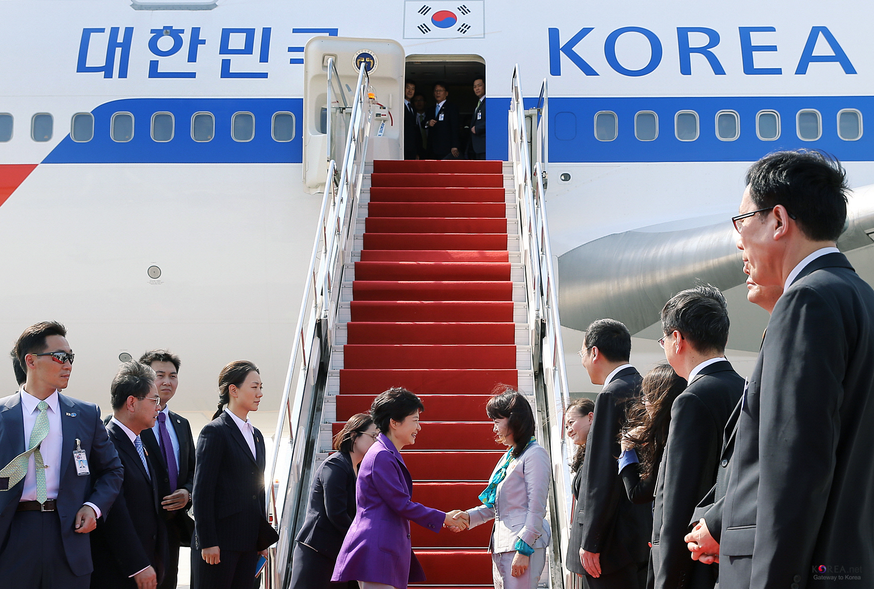 President Park Geun-hye’s state visit to China